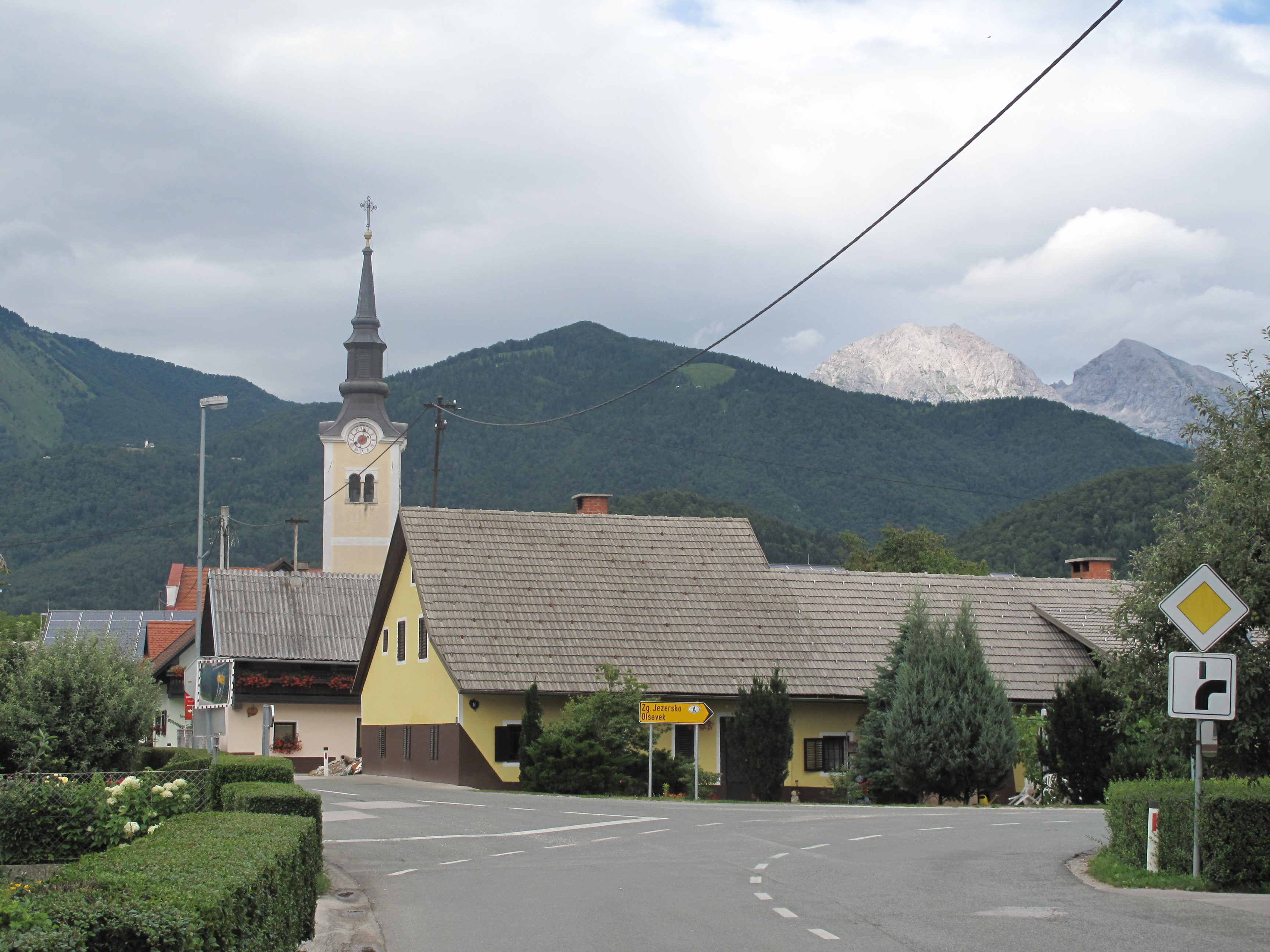 Hotemaze, church tower in the street